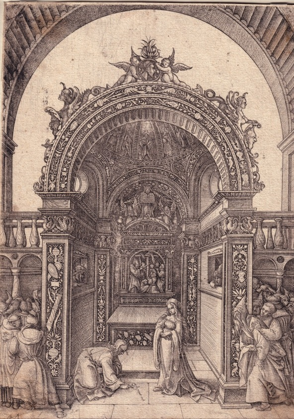 Etching “Altar tabernacle with the adulterous woman “ from Daniel Hopfer